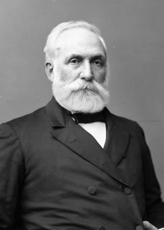 Sir Mackenzie Bowell, Minister of Customs. Bowell would go on to serve as Minister of Militia and Defence, Minister of Trade and Commerce and as Prime Minister of Canada.